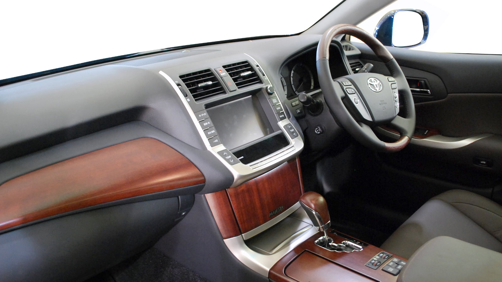 5th generation Toyota Crown Majesta (2009/3 - )